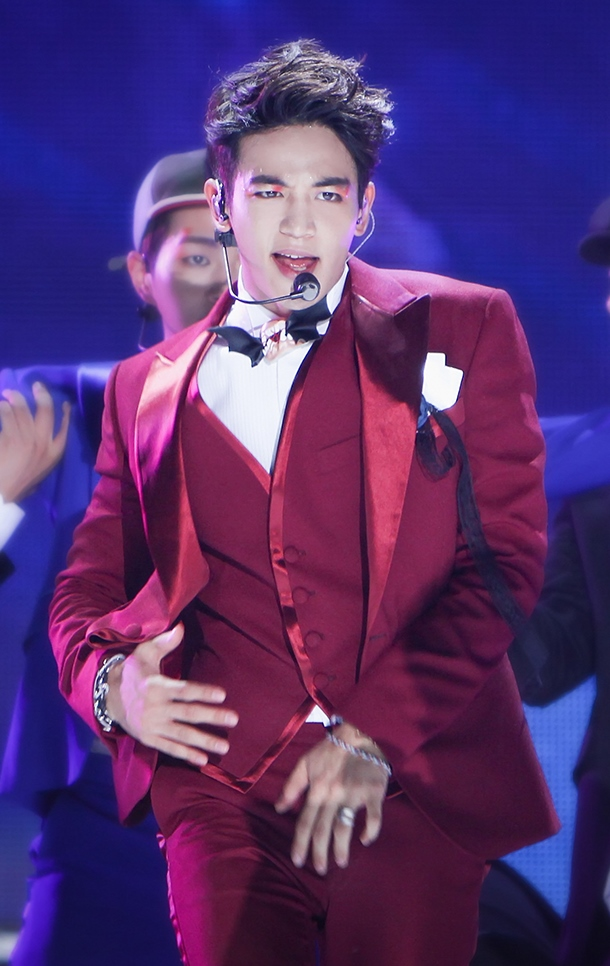 Minho at the SBS Inkigayo 'Korea Music Festival' in Sokcho on August 9, 2015.